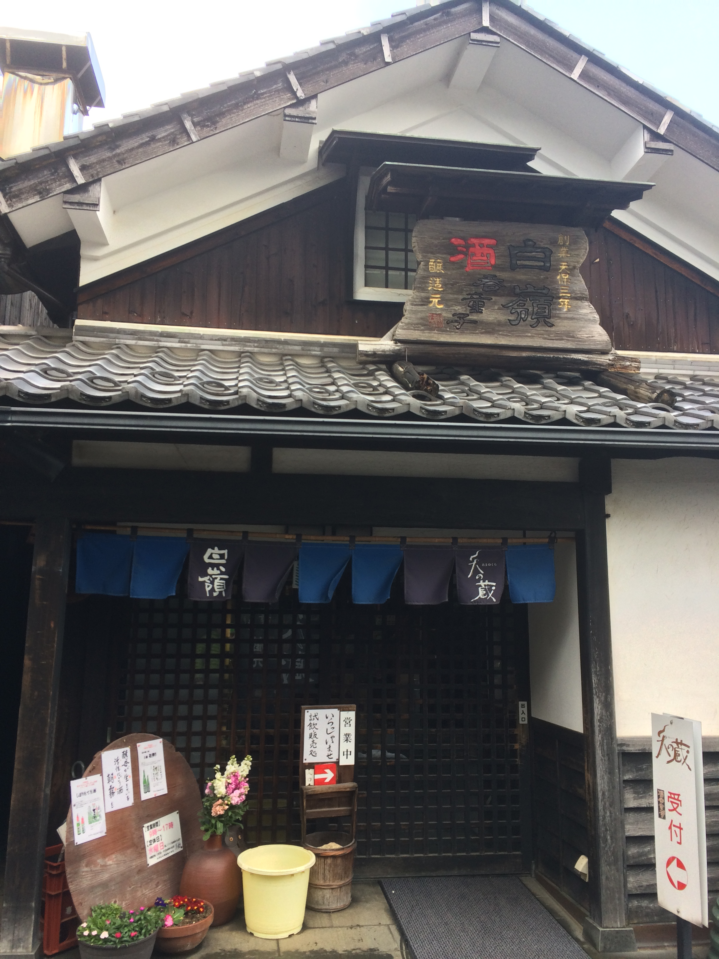 hakurei sake brewery in Yura,miyazu city,kyoto pref